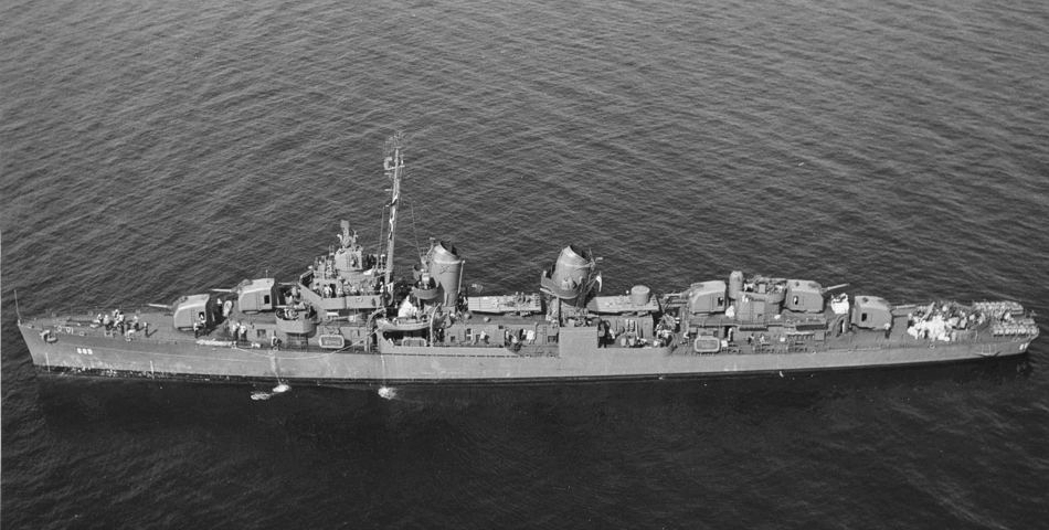 The U.S. Navy destroyer USS Picking (DD-685), circa in 1943, around the time of her commissioning on 21 September 1943.